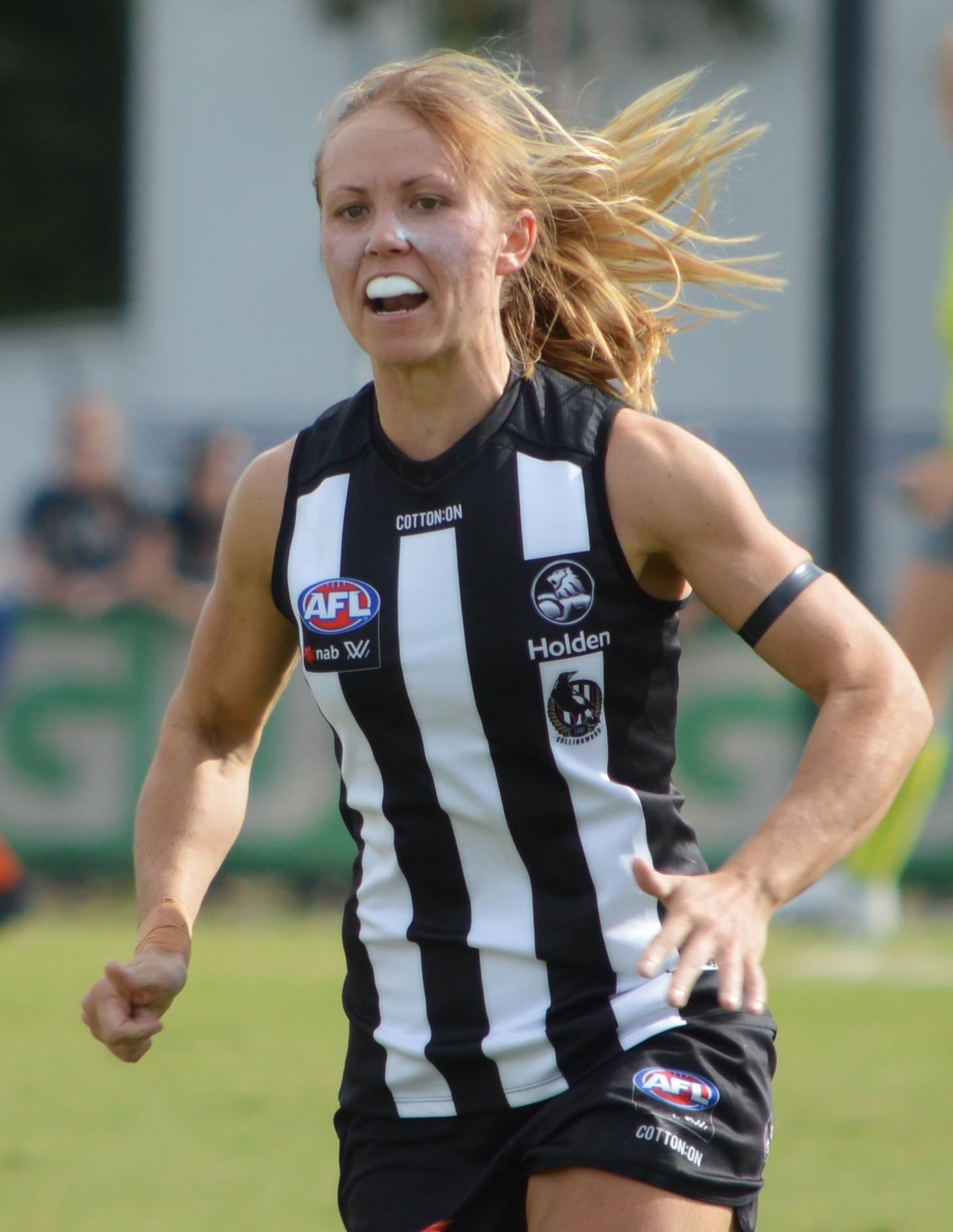 Melissa Kuys during the round 3, 2018, AFL Women's match between Collingwood and Greater Western Sydney